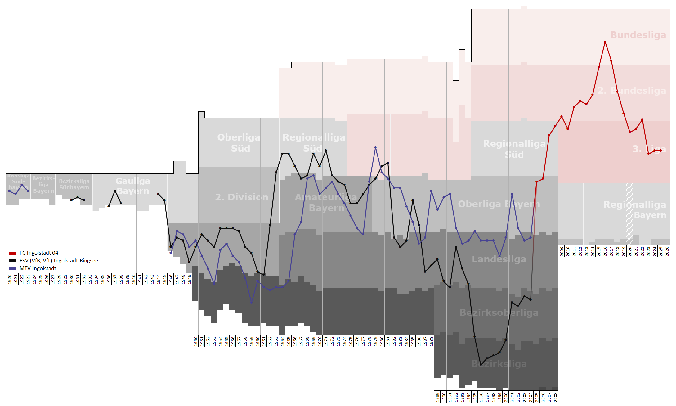 Chart of end-season table positions of FC Ingolstadt in the football league system of Germany. Data source: RSSSF, wikipedia, f-archiv.de, fussball.de